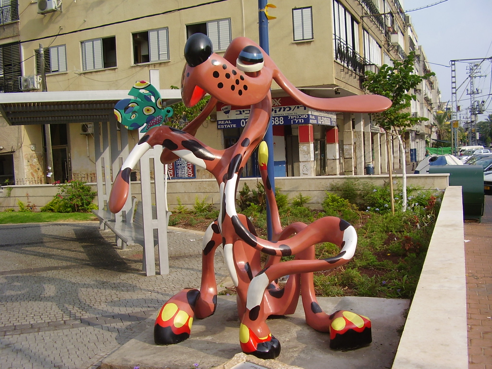 where is pluto story garden in holon